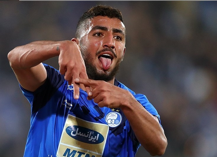 Allahyar Sayyadmanesh